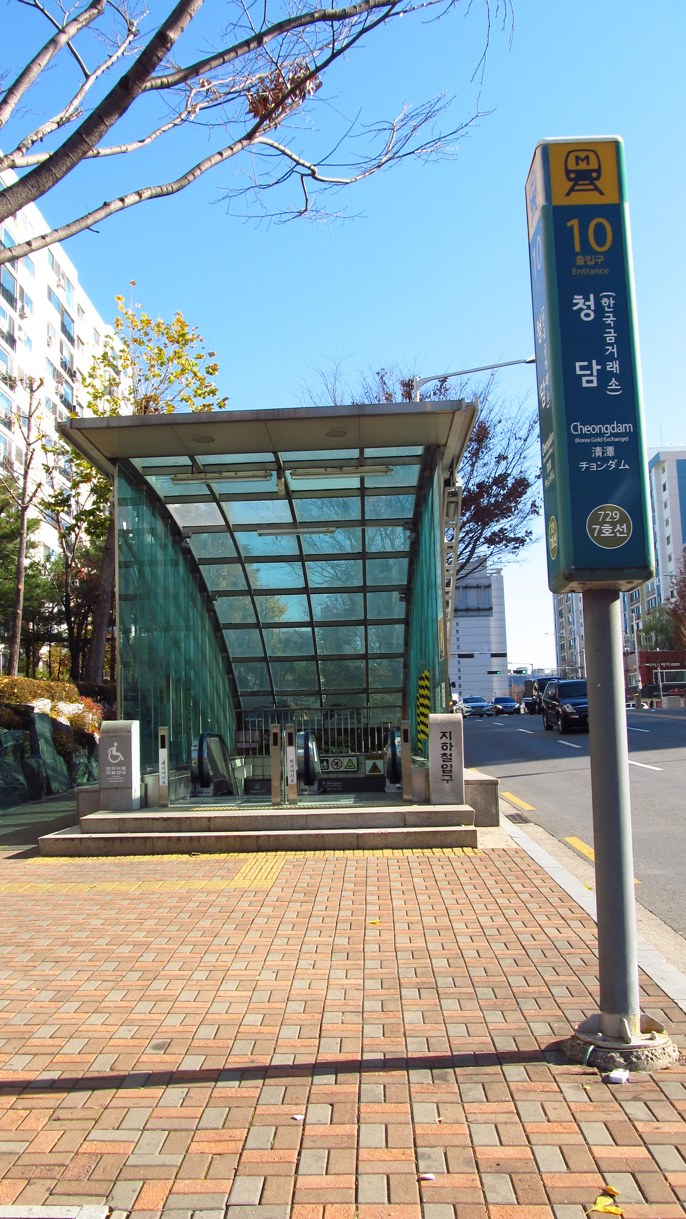 The no.10 entrance to Cheongdam Station on Seoul Subway Line 7 in Gangnam-gu, Seoul, Republic of Korea(South Korea)